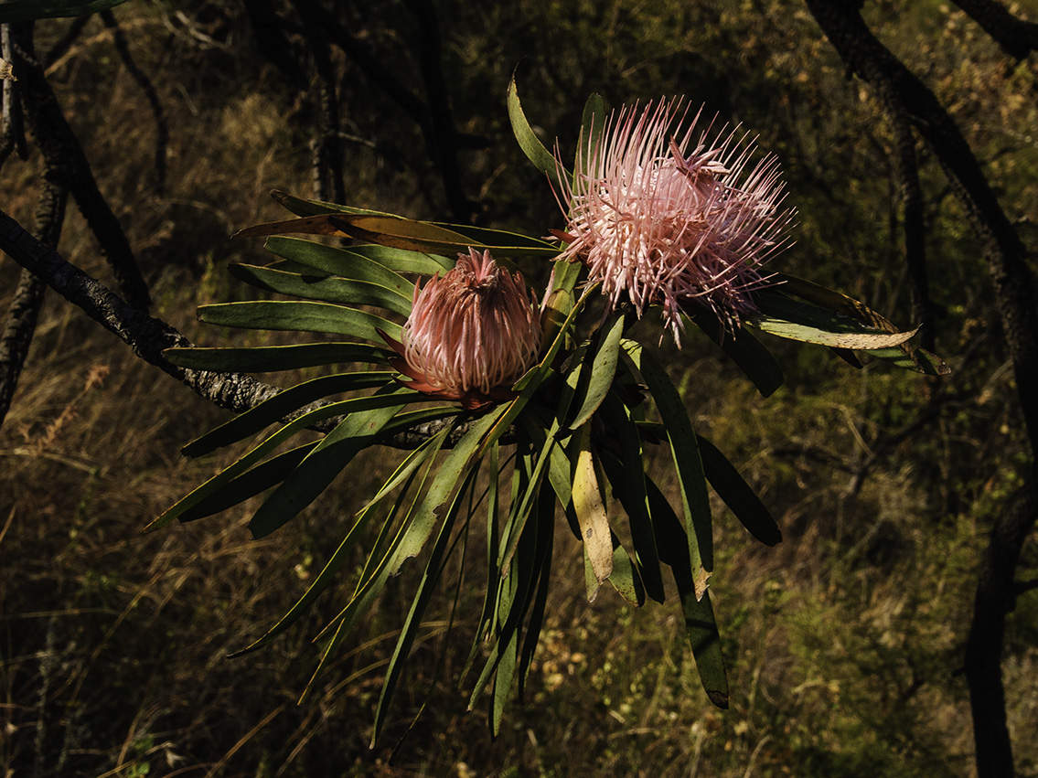 A few photos taken during field work near Barberton, South Africa (July 2-4, 2012)